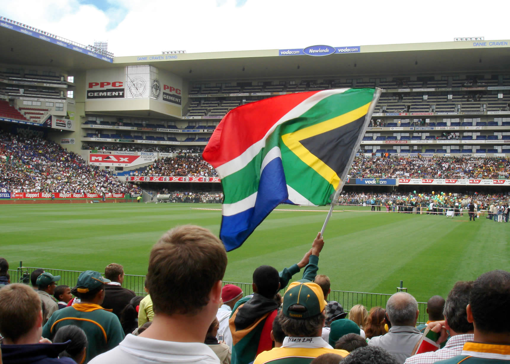 The buzz leading up to the Springbok squad's arrival at Newlands Rugby Stadium was truly deafening... you'd swear that the final had just been played and won then and there!